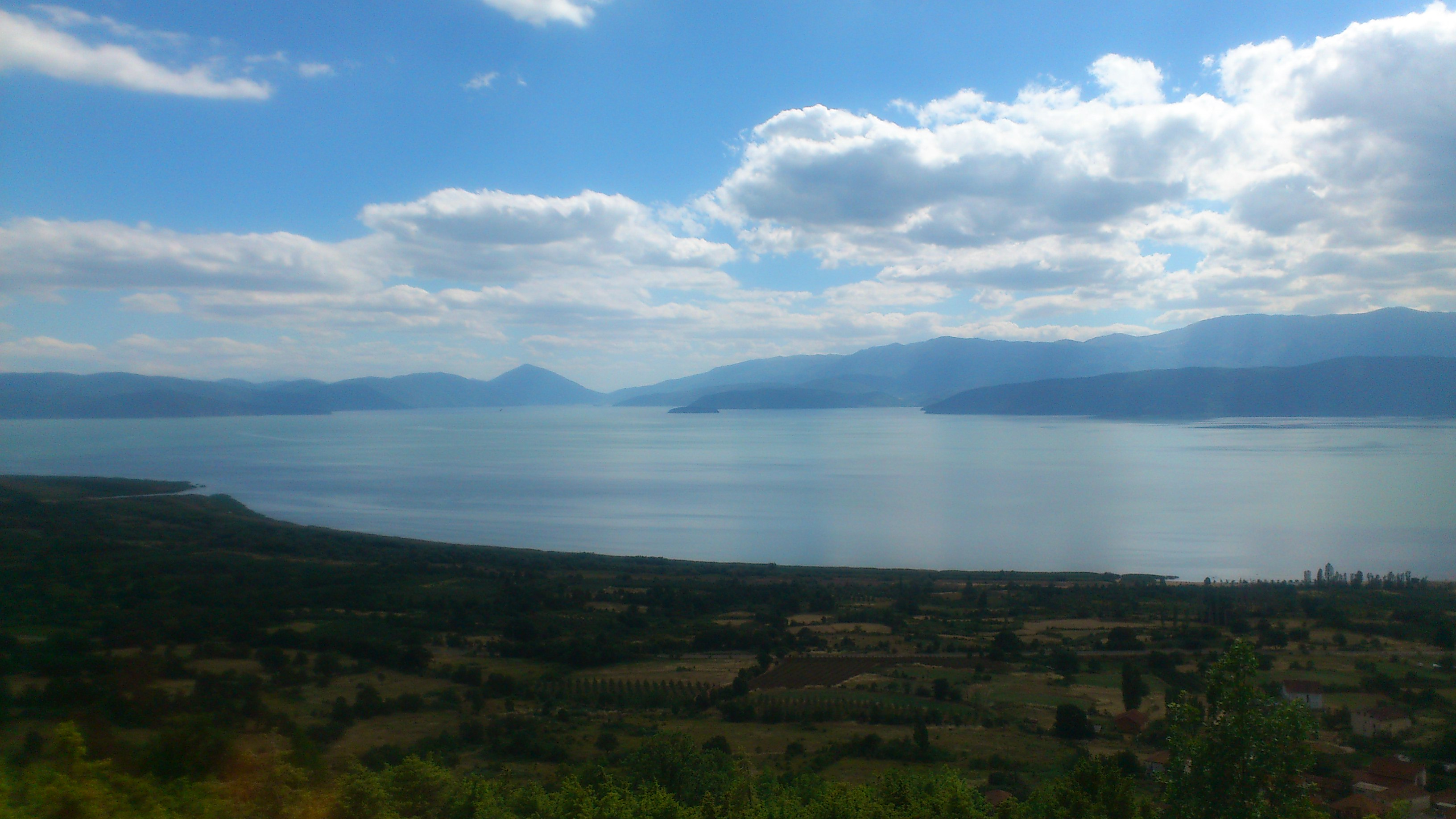 Prespa Lake, Macedonia